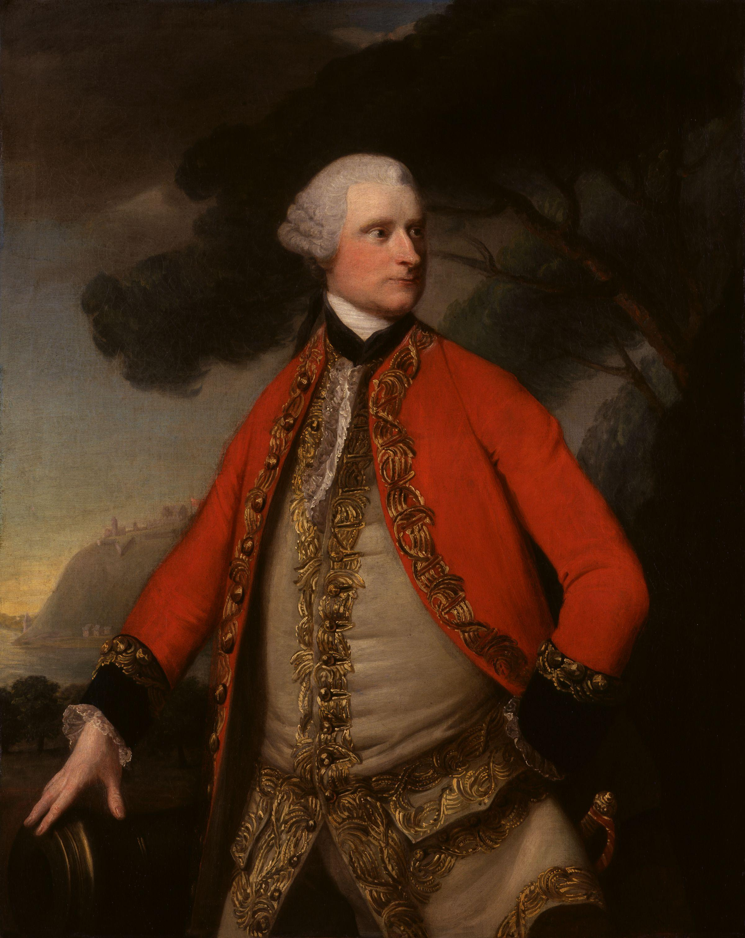 James Murray, by unknown artist, given to the National Portrait Gallery, London in 1942. All images in this batch have an unknown author, but there is strong evidence it was first published before 1923 .